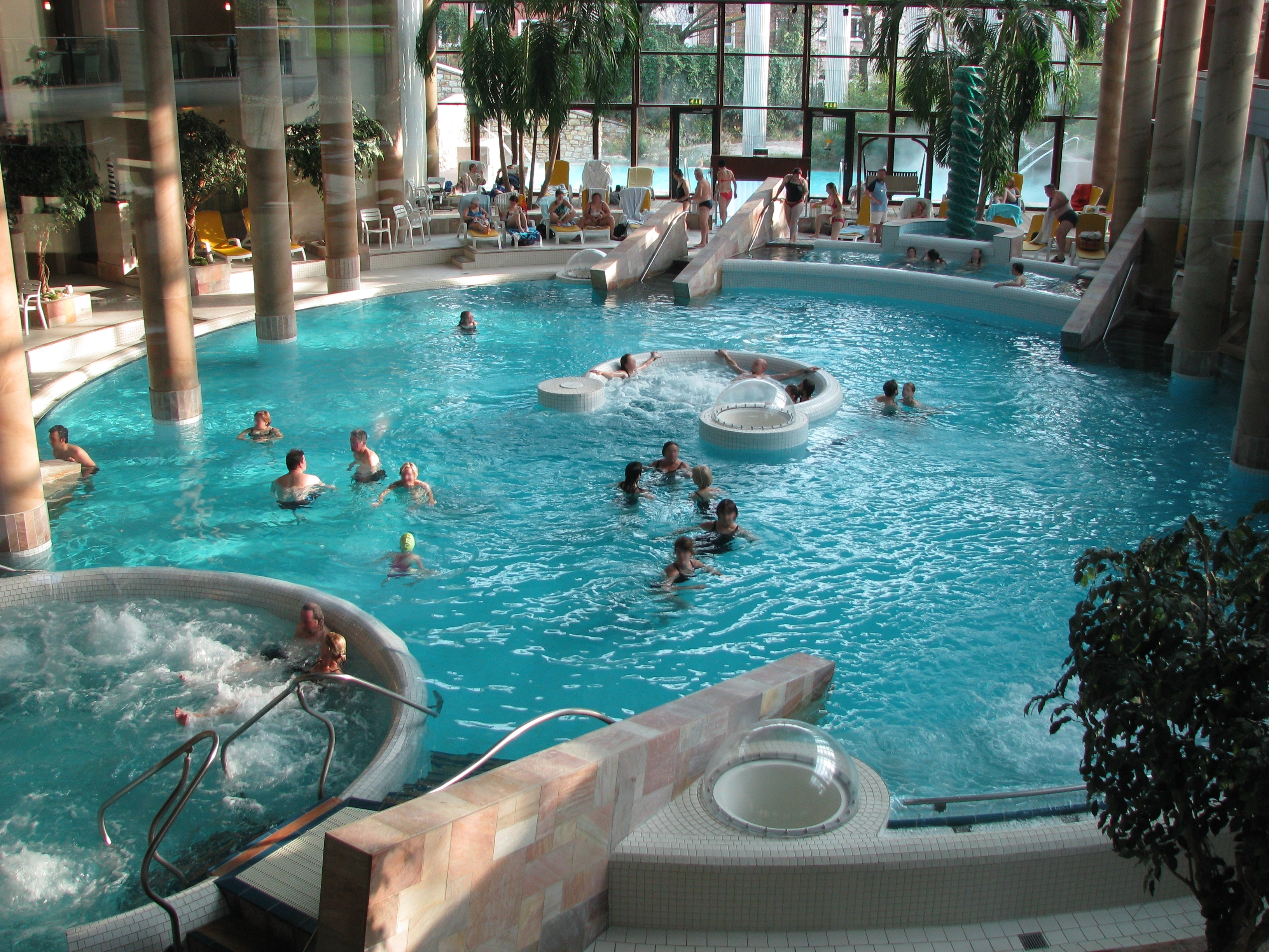 bathing hall, Carolus Thermen, Aachen